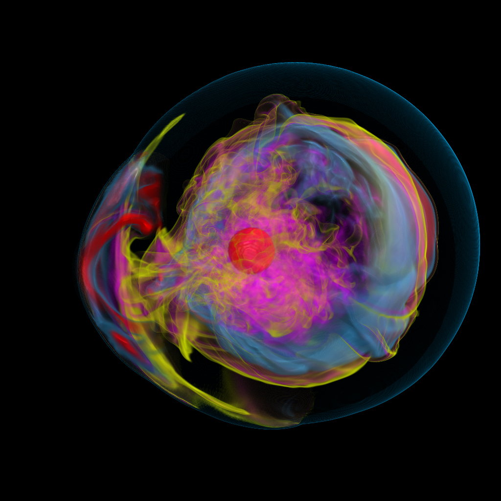 Visualization created by Eric Lum